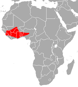 Jones's Roundleaf Bat (Hipposideros jonesi) range